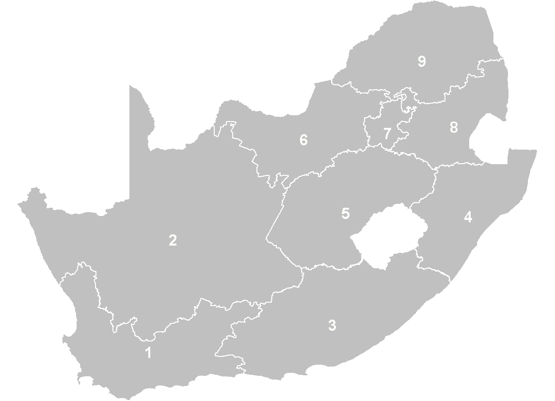 Map of South Africa showing the provinces after the 12th amedment of the constitution in December 2005 with numbering.